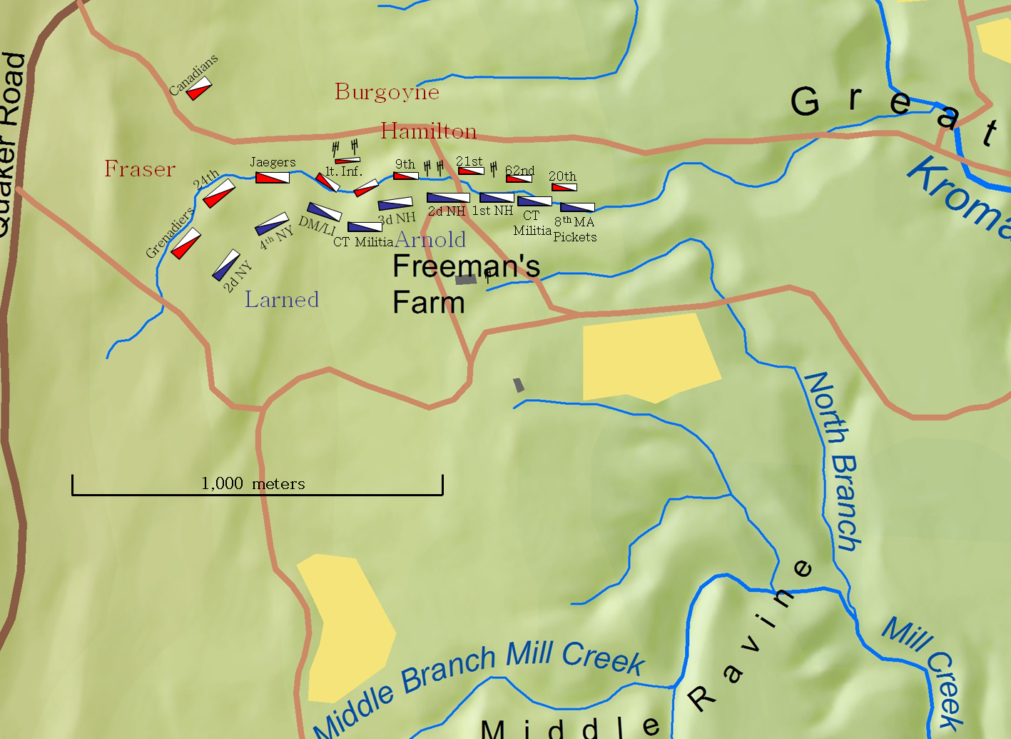 Shows the regimental level units and relative sizes at the Battle of Freeman's Farm, September 19, 1777.